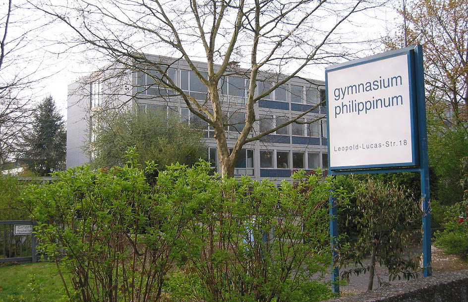 Gymnasium Philippinum Marburg, front sight before reconstruction